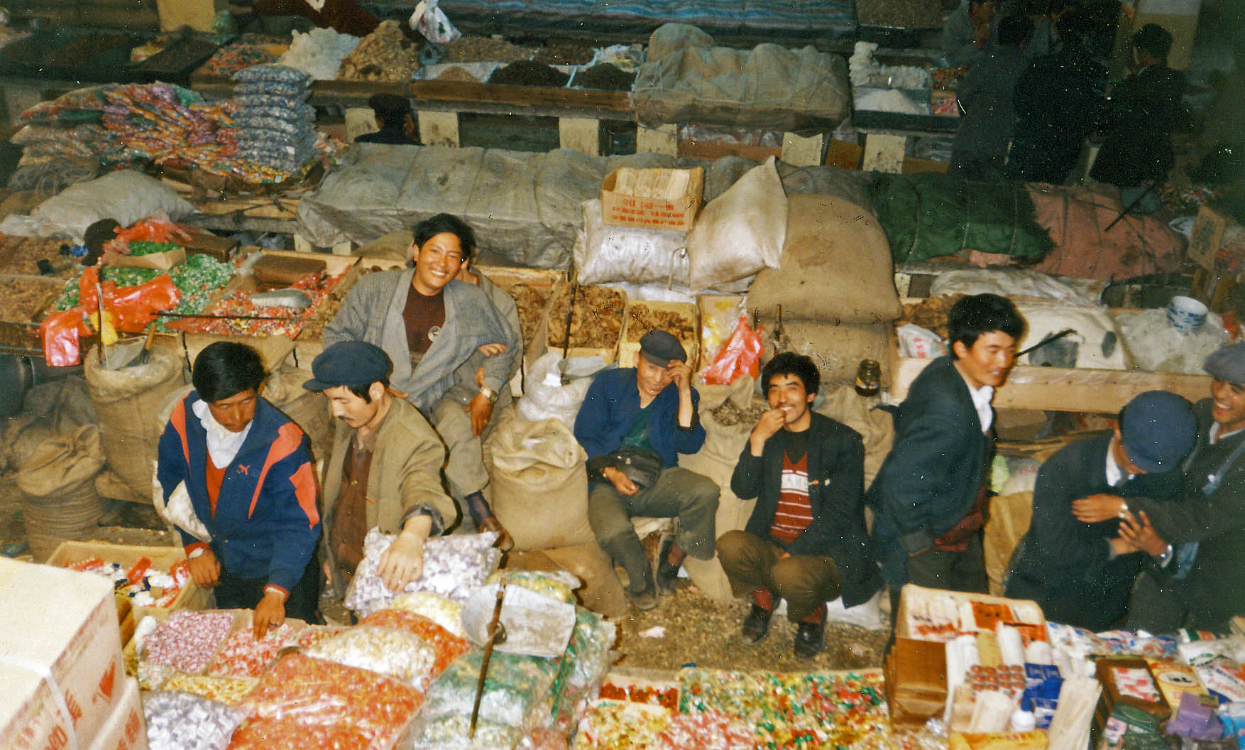 I took this photo in Lhasa in 1993